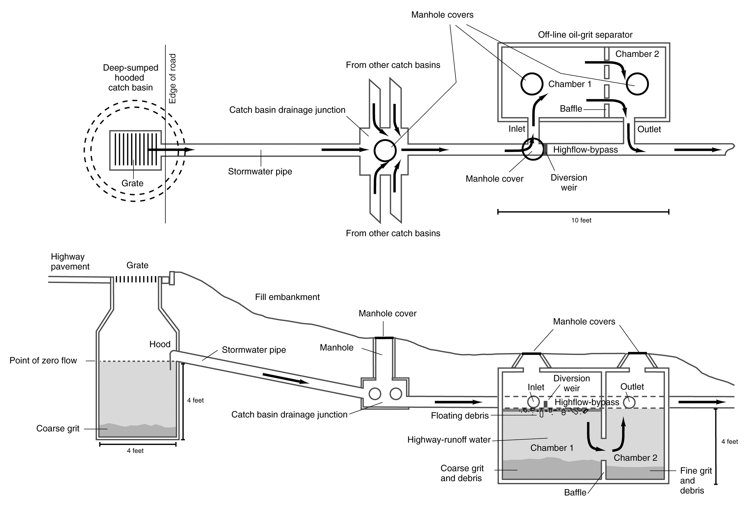 Schematic section diagram of a deep-sumped hooded catch basin and a 1,500-gallon off-line oil-grit separator.